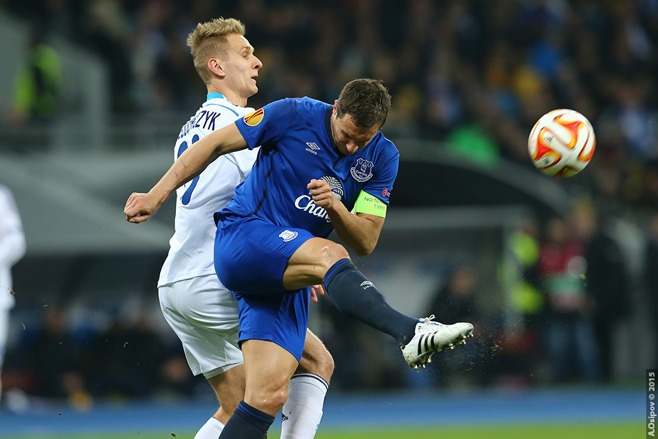 UEFA Europa League 2014-15 1/8 Final NSK Olimpiyskyi - Kyiv 19/03/2015 - 19:00CET (20:00 local time) Round of 16, Second leg Dynamo Kyiv - Everton - 5:2 Goals: Yarmolenko 21 Lukaku 29 Teodorczyk 35 Miguel Veloso 37 Gusev 56 Antunes 76 Jagielka 82 Aggregate: 6-4